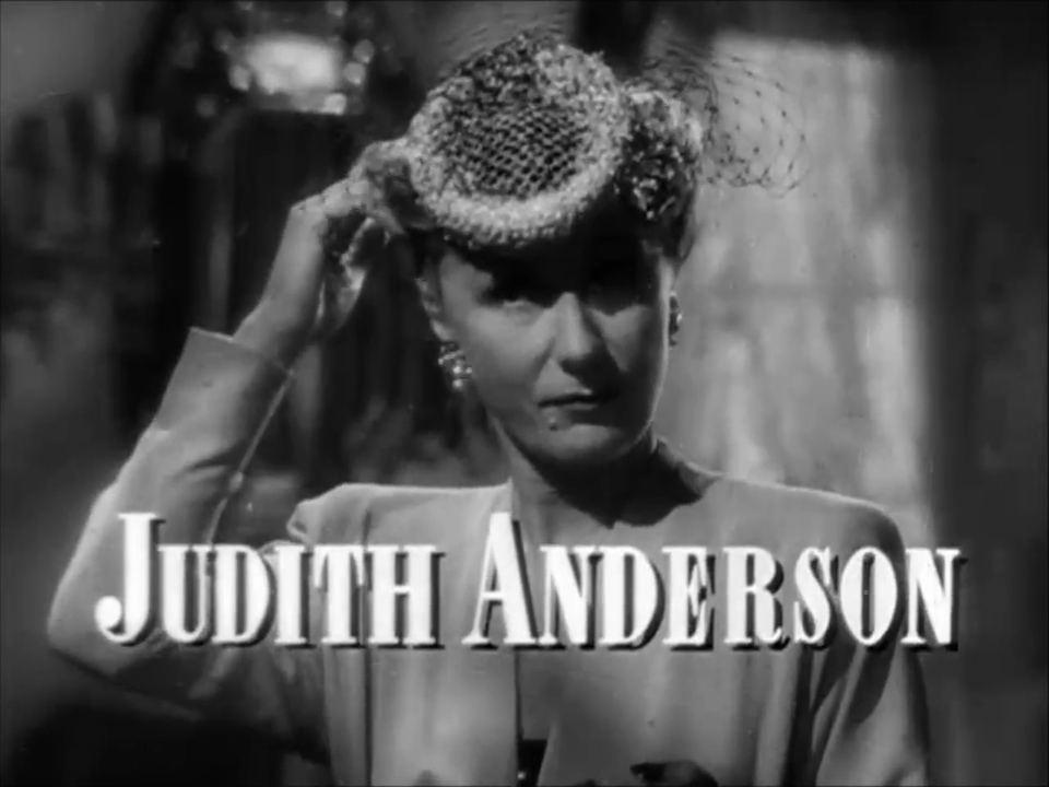 Cropped screenshot of Judith Anderson from the trailer for the film Laura.